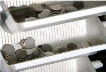 Planchets in the United States Mint press feed system, on their way to the coining press.